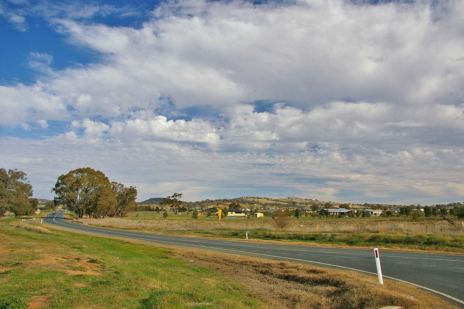 Springvale which is a new suburb of Wagga Wagga. Taken on the Holbrook Road.